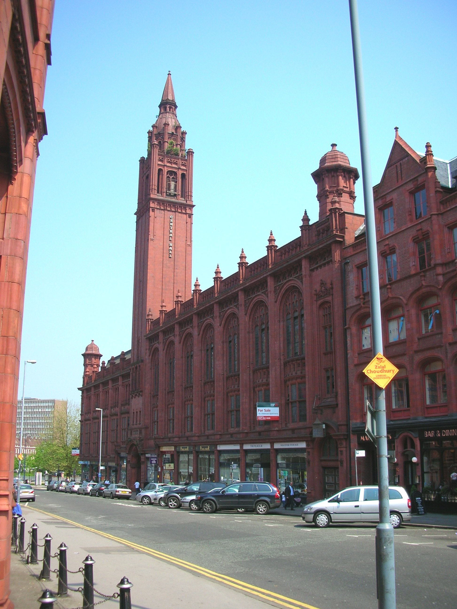 Methodist Central Hall, Corporation Street, Birmingham, England. Photographed 10th May 2006.